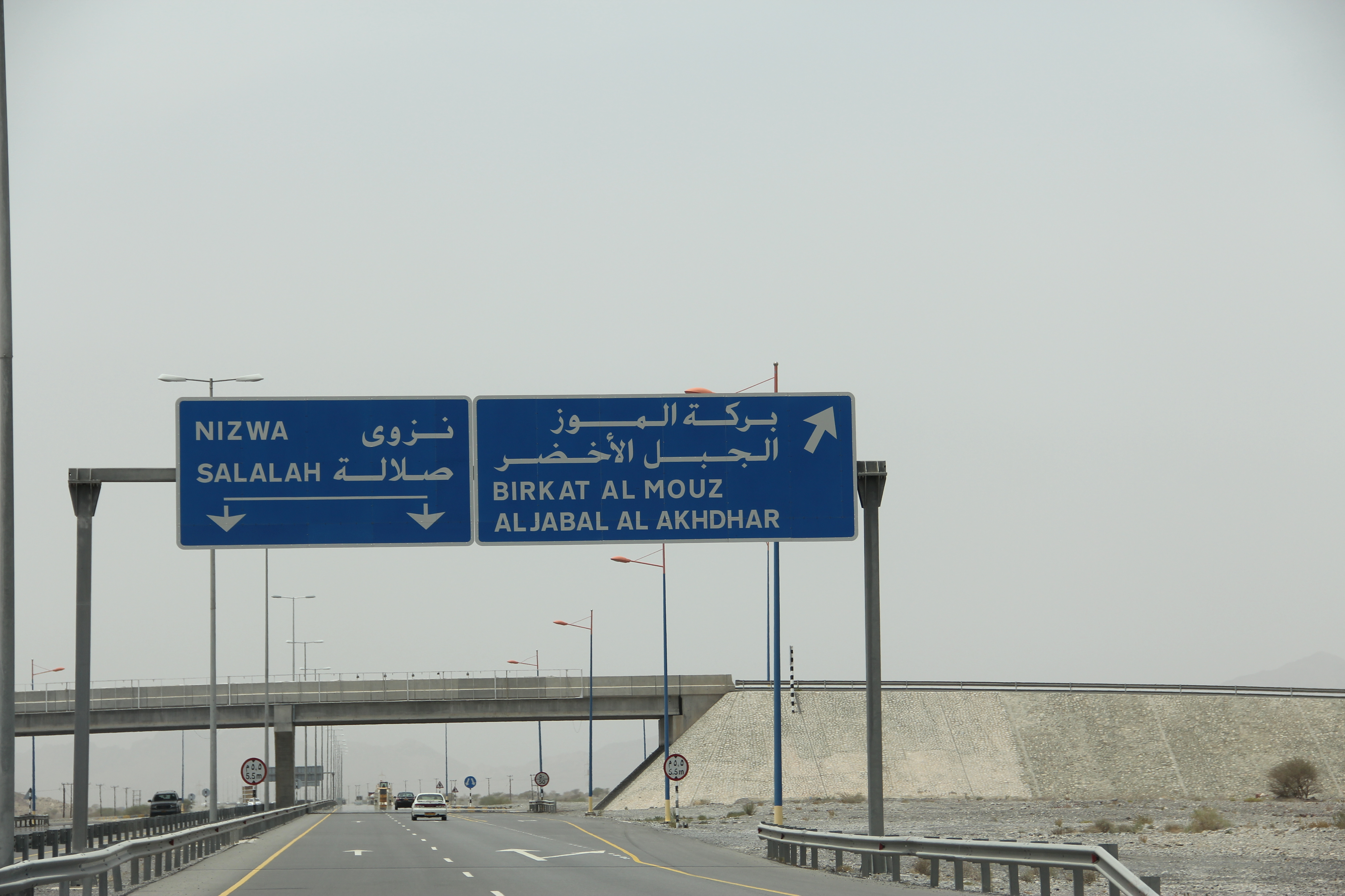 Motorway